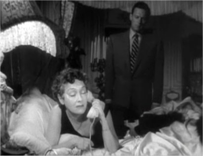 Screenshot taken by me (Icea) from the trailer to the movie Sunset Blvd.